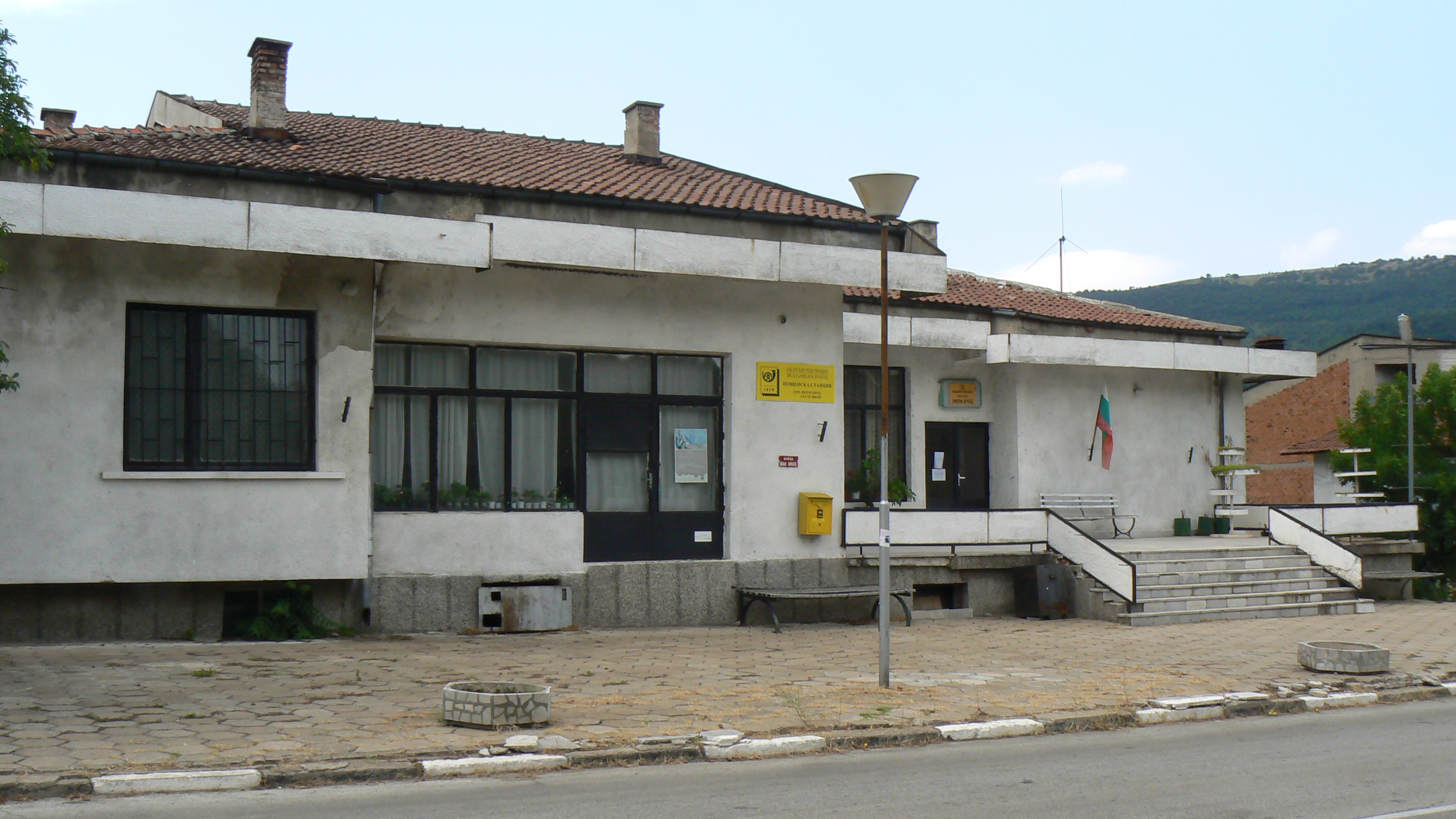 The mayor's office and post station in village Lyutibrod, Bulgaria